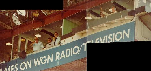 I took a couple of photos of the WGN Radio and TV booths at Wrigley Field during the 7th inning stretch on June 11, 1981, and roughly spliced them together. This was before the days when Harry Caray would lead the stretch, as he was still broadcasting for the White Sox. In the booth to the left are Vince Lloyd; an unknown person; and Lou Boudreau. In the booth to the right are Milo Hamilton and Jack Brickhouse. Brick retired at the end of the season and Harry was hired to replace him, much to the frustration of Milo, who took a new job with the Houston Astros where he remains as of the 2005 season. The other three Cubs broadcasting icons in this photo are now in the Heavenly Hall of Fame.